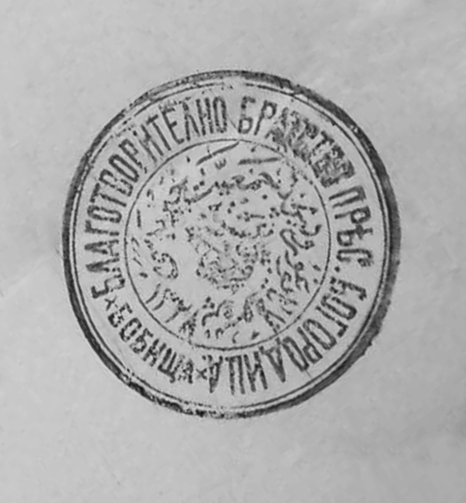 Bobishta Carigrad Bratstvo